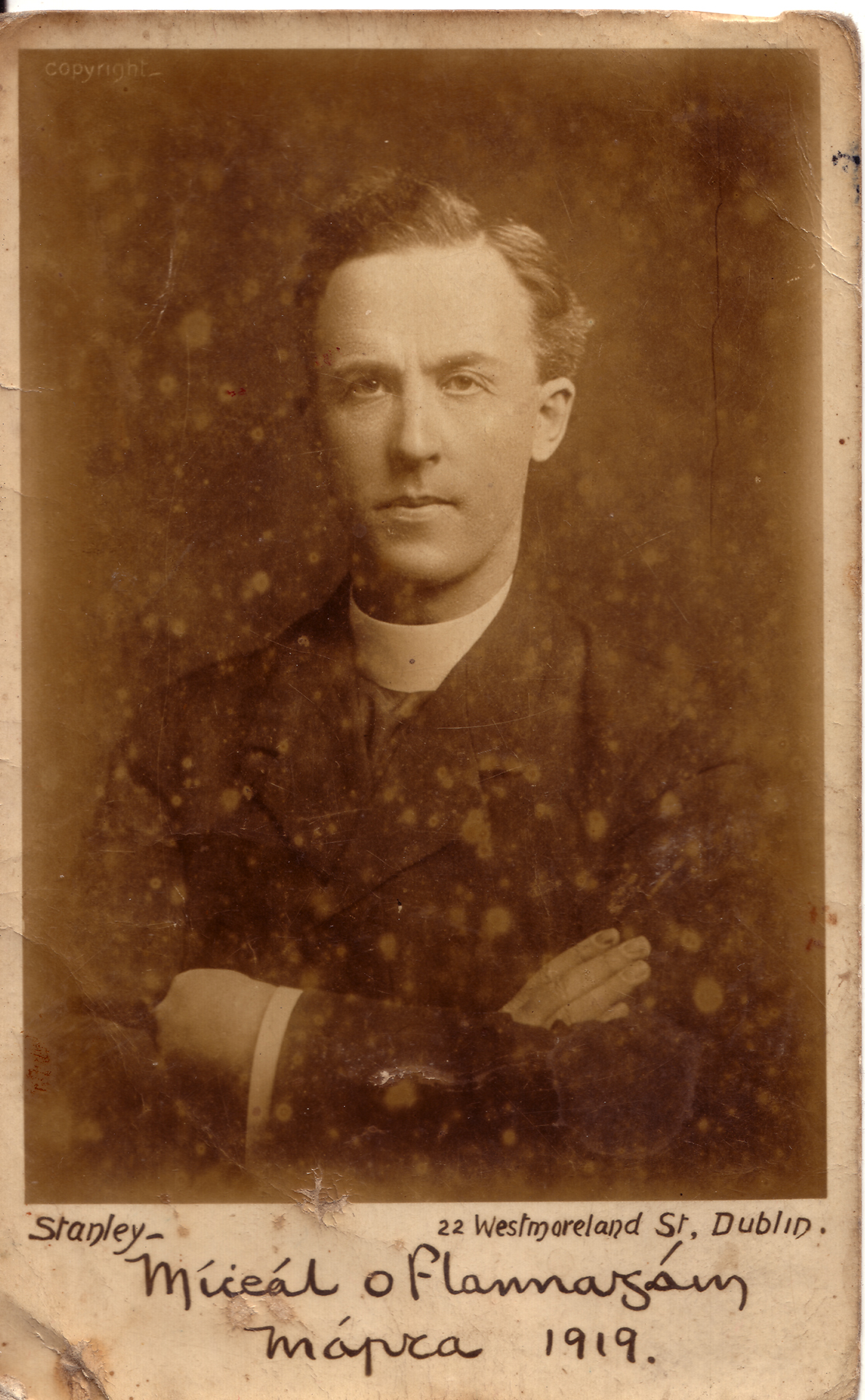 A Sinn Féin postcard of Fr Michael O'Flanagan from 1919